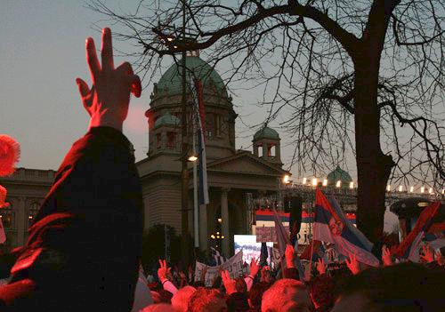 Protest rally in Serbia during the campaign "Kosovo is Serbia!"